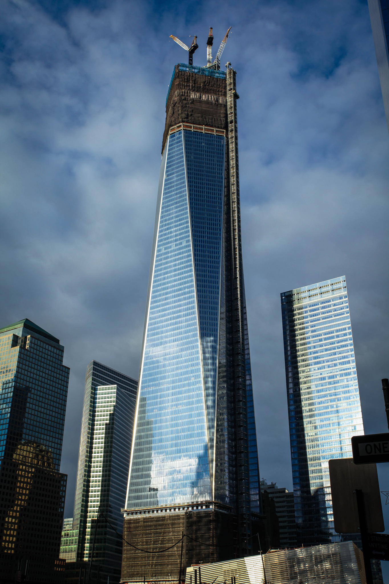 One World Trade Center under construction as of November 2012; view from south